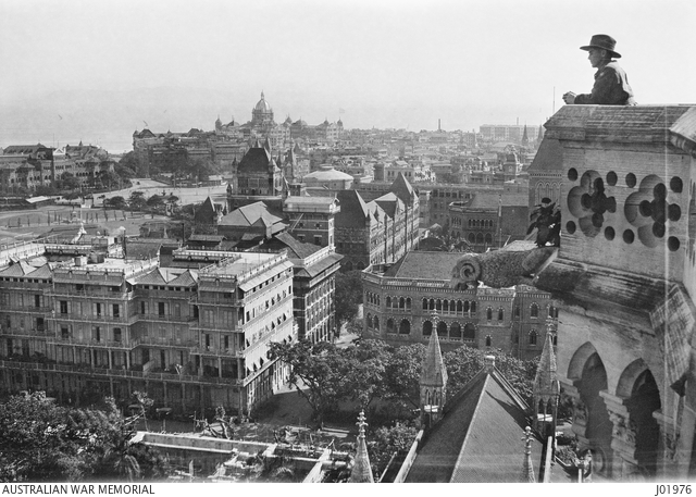 Looking down on the city of Bombay towards the south east, from the summit of Rajabai Tower, part of the University at Bombay.